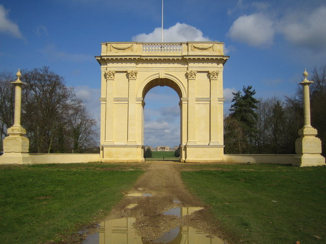 The Corinthian Arch at Stowe, Buckinghamshire, with Stowe House in the distance